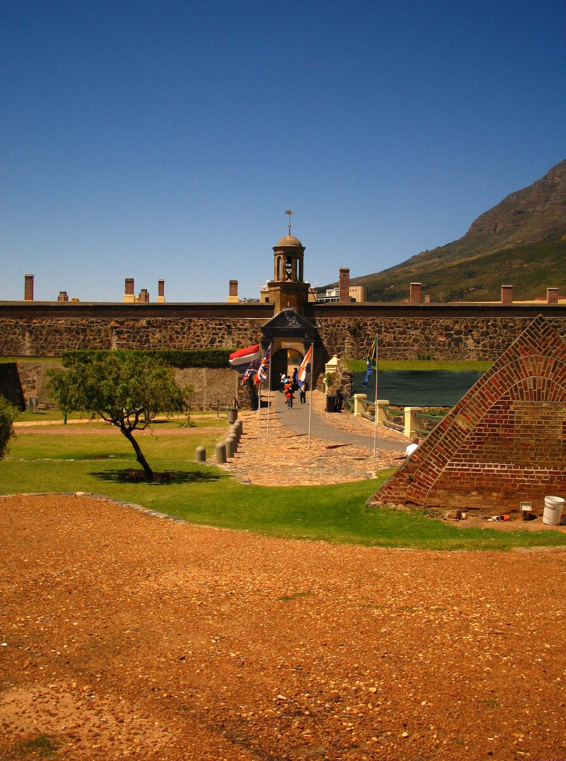 Main entrance to the Castle of Good Hope, Cape Town.